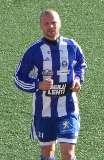 Finnish footballer Petri Oravainen during HJK - KuPS Veikkausliiga match.